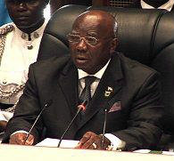 Photo of Ahmed Tejan Kabbah, former President of Sierra Leone, giving his farewell adress to the parliament of Sierra Leone